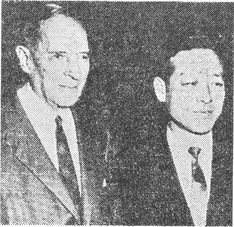 Kim Jong-pil and D. MacAthur in 1962